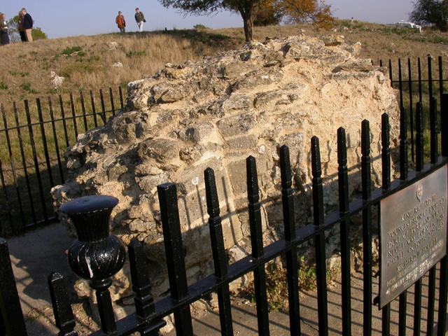 Masonry from Fotheringhay Castle. Part of the castle mound can be seen. Mary Queen of Scots was imprisoned here by Queen Elizabeth I and was later beheaded on the site.